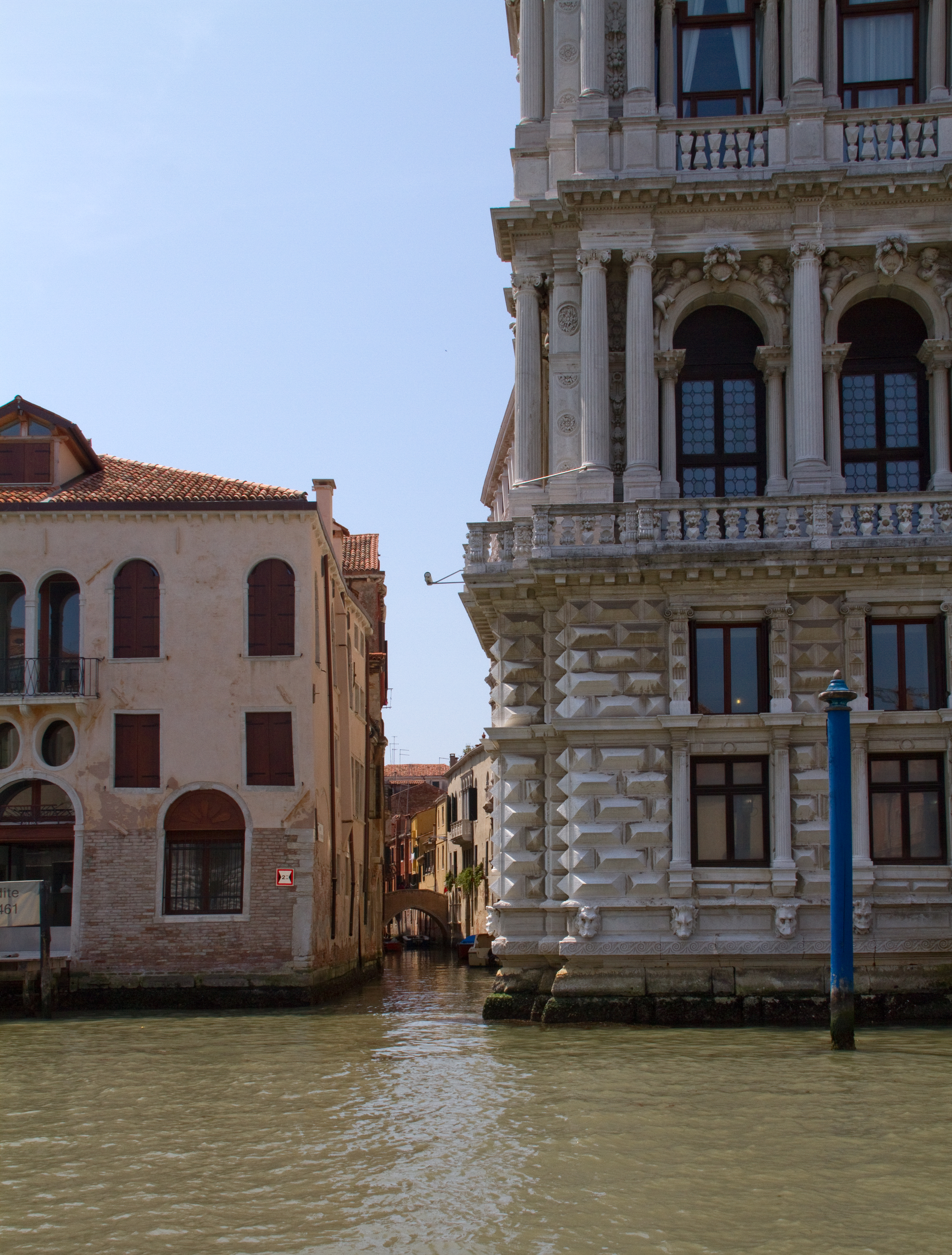 Grand Canal 25